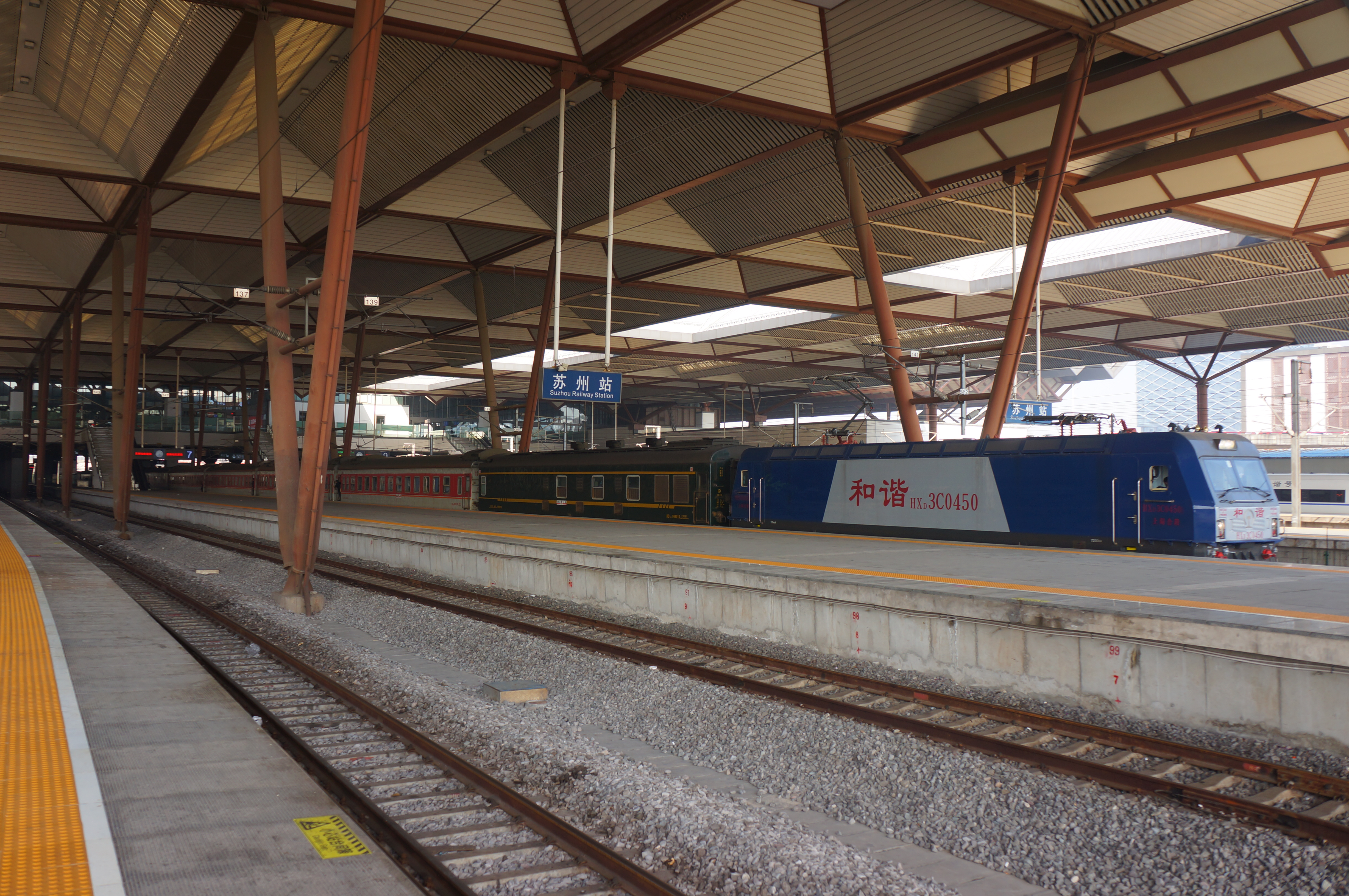 201704 HXD3C-0450 hauls K1011 at Suzhou Station. The drivers must be surprised when he saw me waiting for him on the platform 10 of SHA